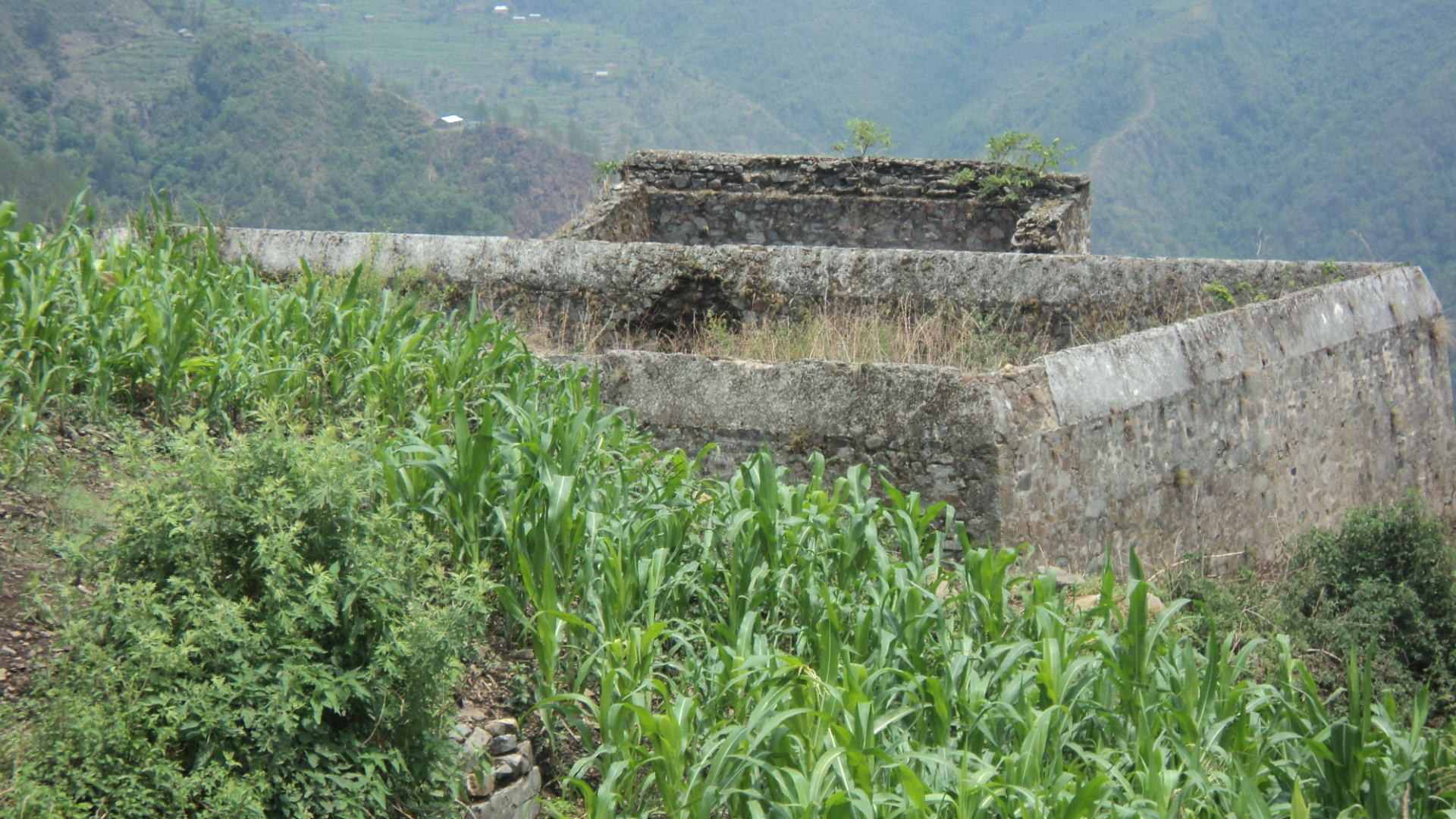 A fort in Nepal